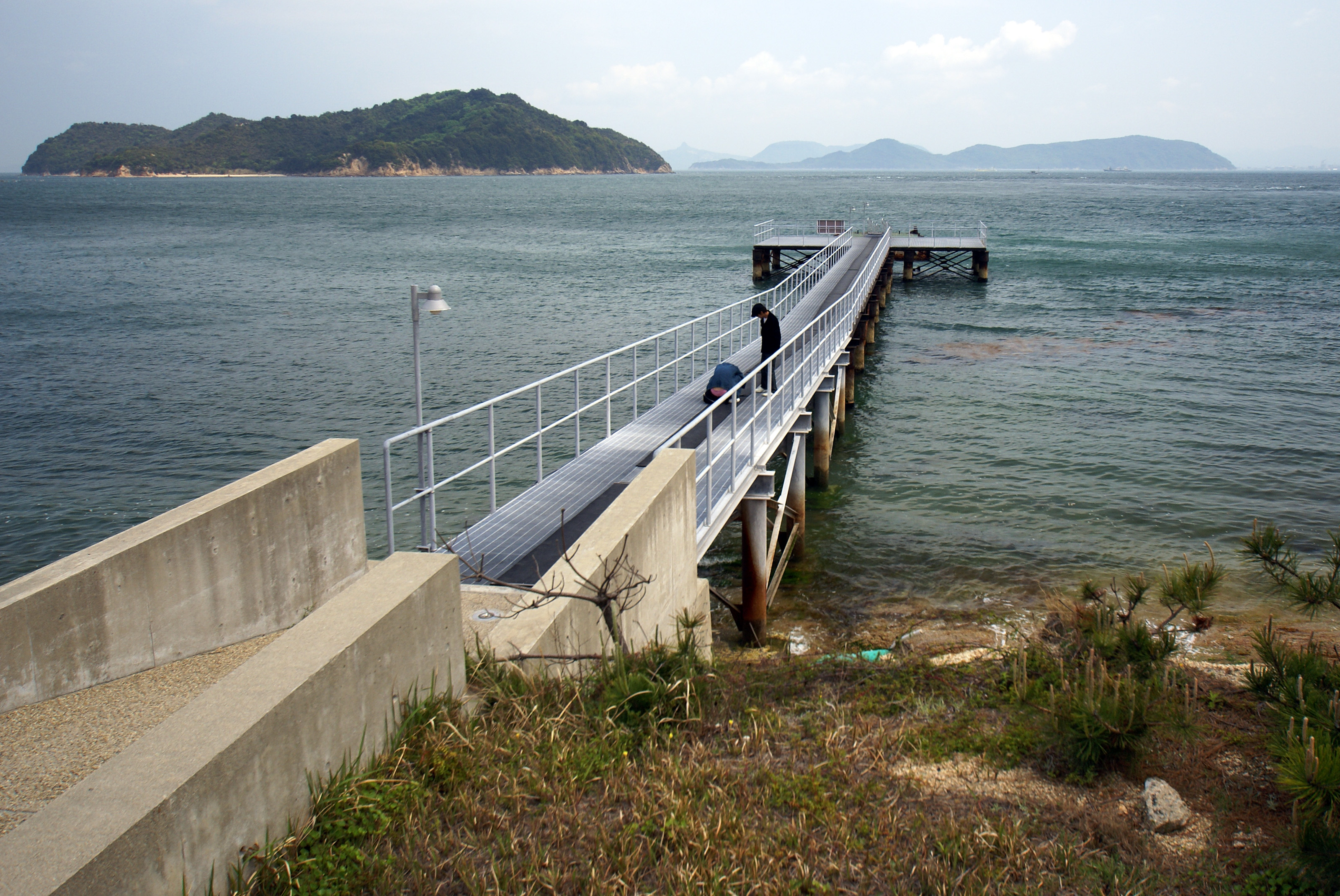 at Naoshima, Kagawa prefecture, Japan